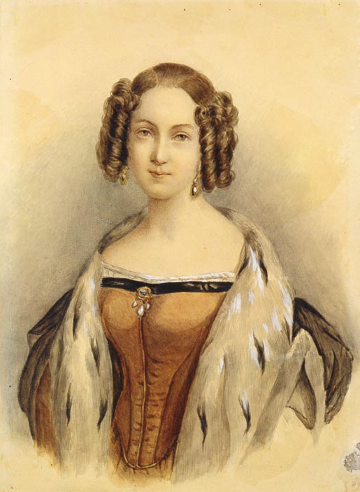 Portrait of Princess Marie of Hesse and the Rhine (1824-1880), future Empress of Russia